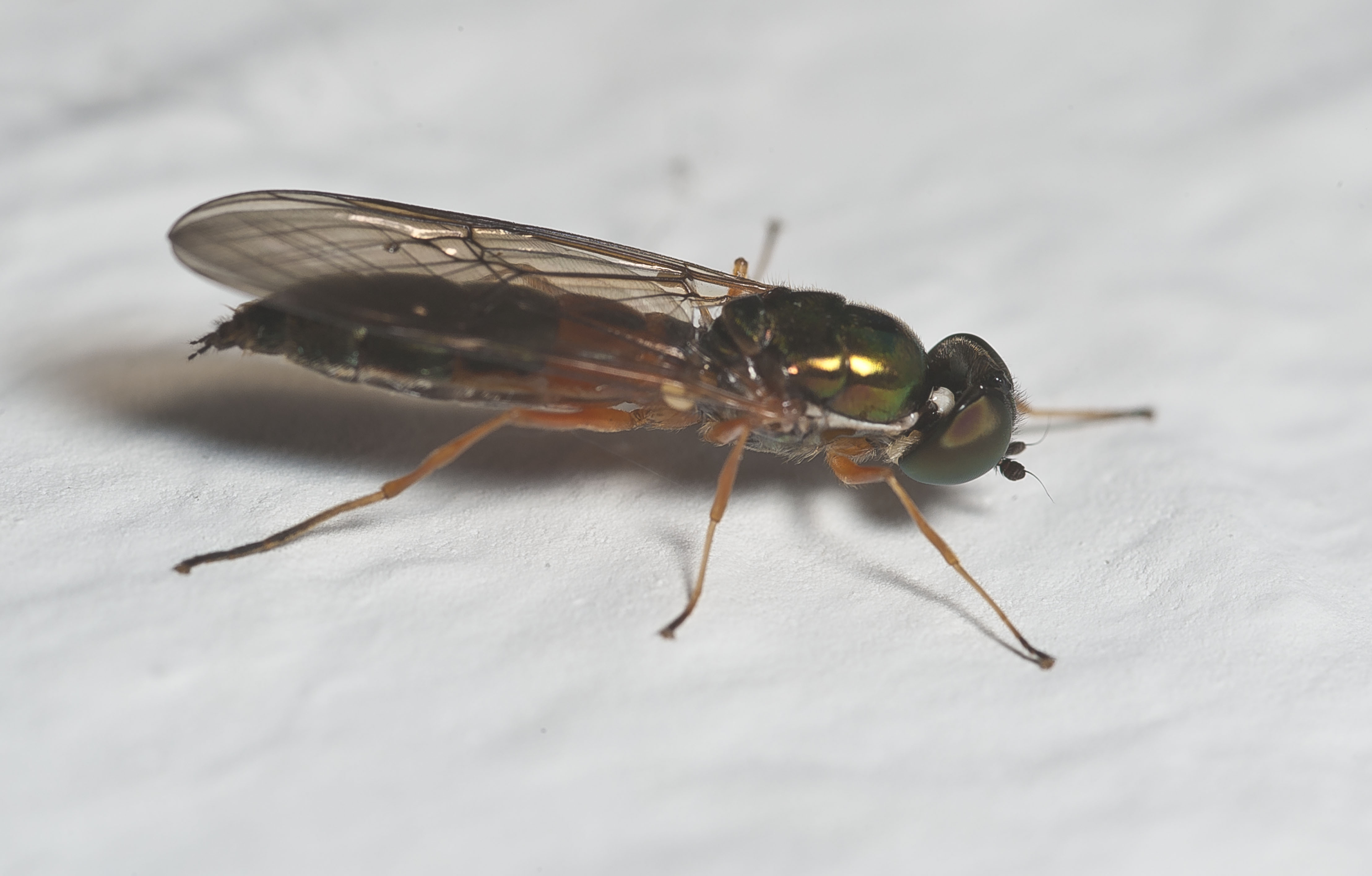 Sargus bipunctatus, f. Picture taken in Stuttgart, Germany. Thanks to the members of Entomologie.de for the identification.